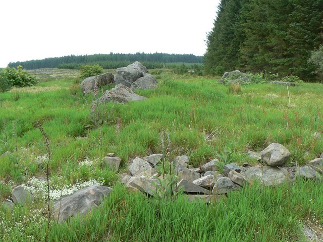 Cairnderry chambered cairn These are the stones visible on the surface of this chambered cairn. Details are available on